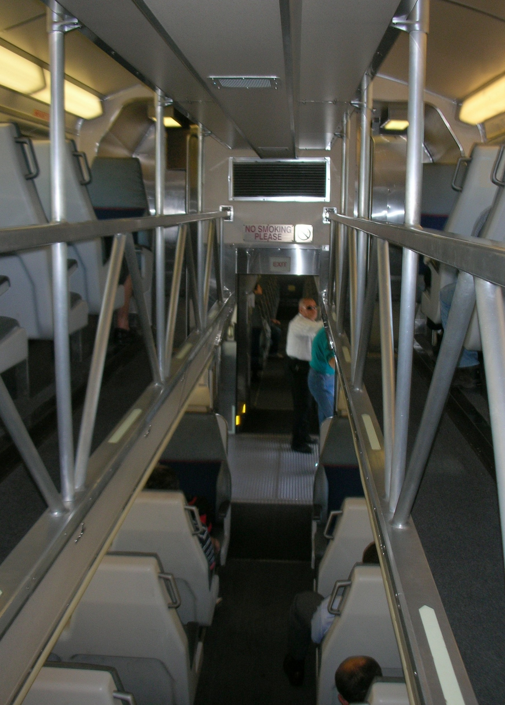 The interior hallway of a Nippon Sharyo bi-level passenger car.